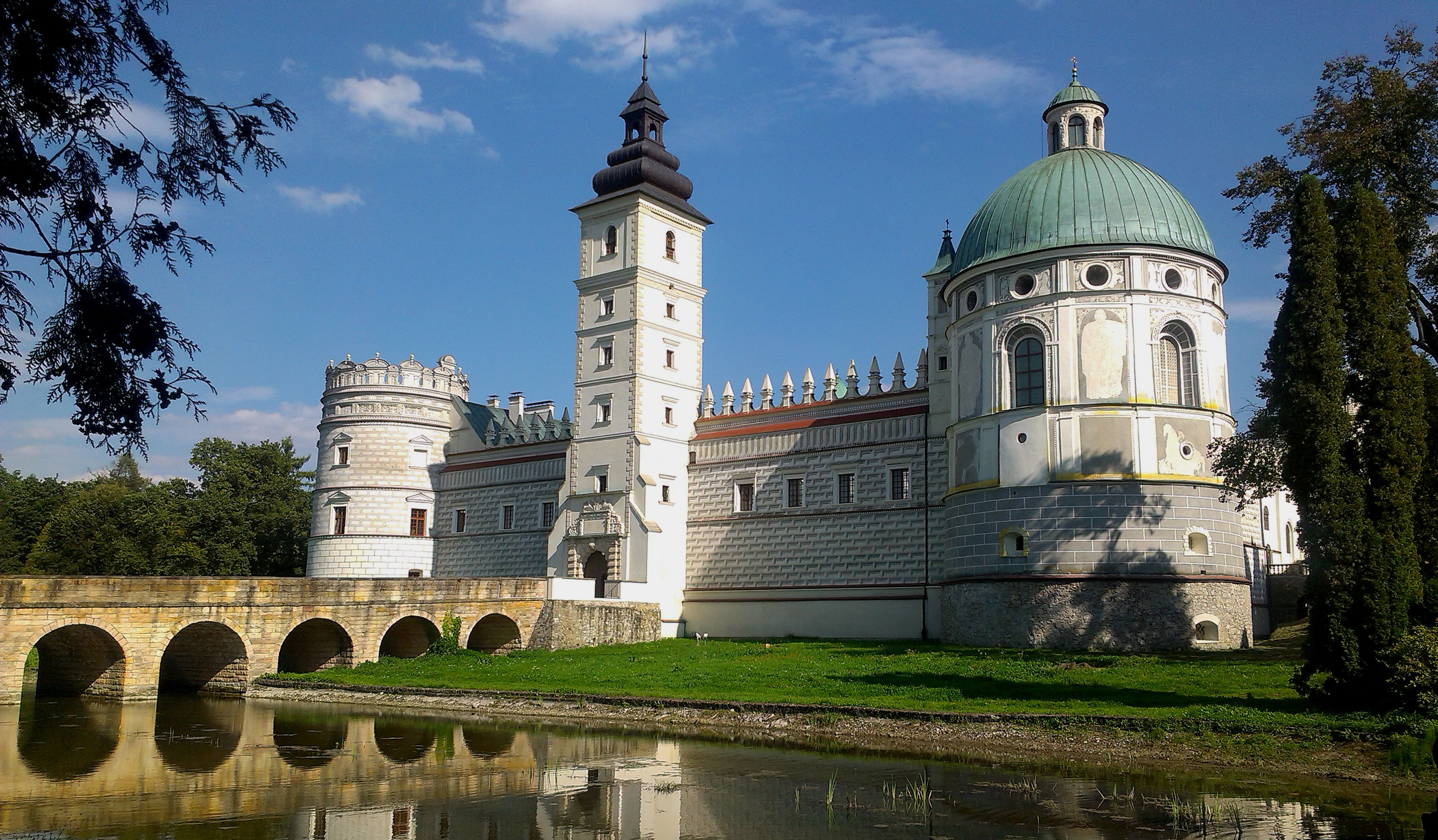 Castle in Krasiczyn, view from moat side.